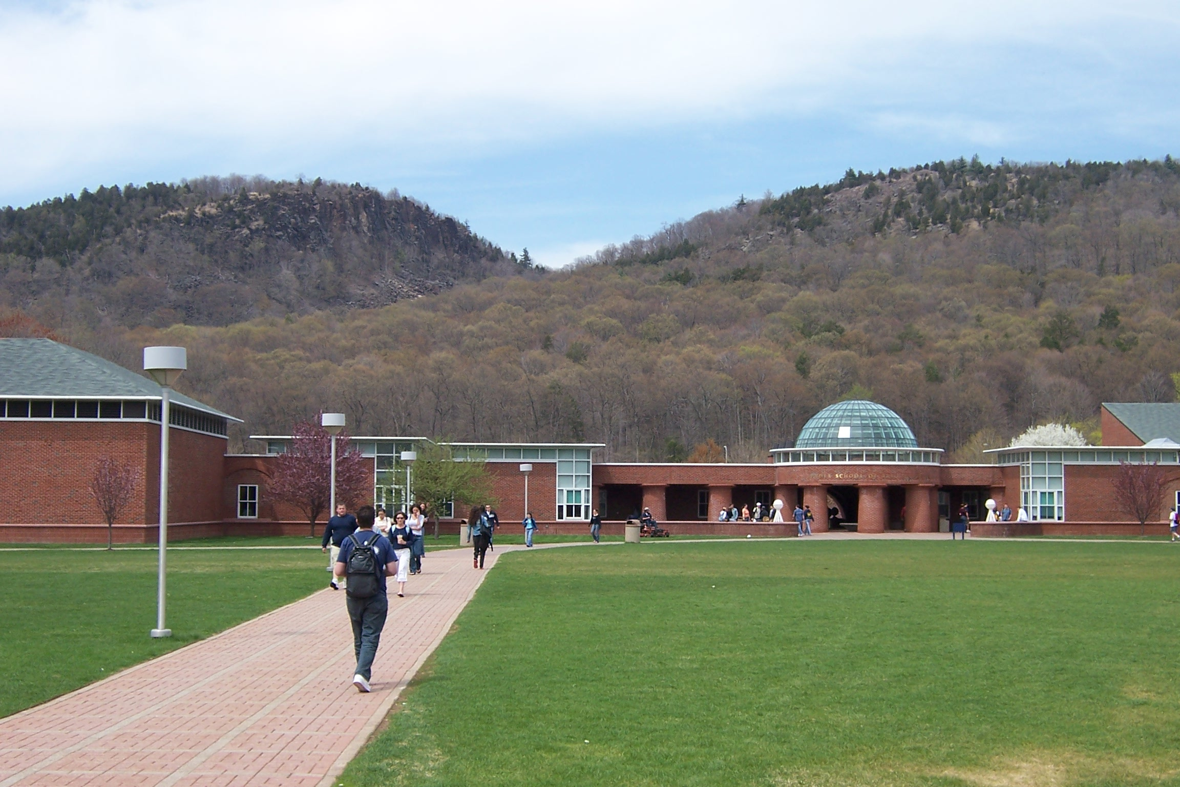 Quinnipiac University campus, Sleeping Giant in background. Taken by me, 26 Apr 2005.